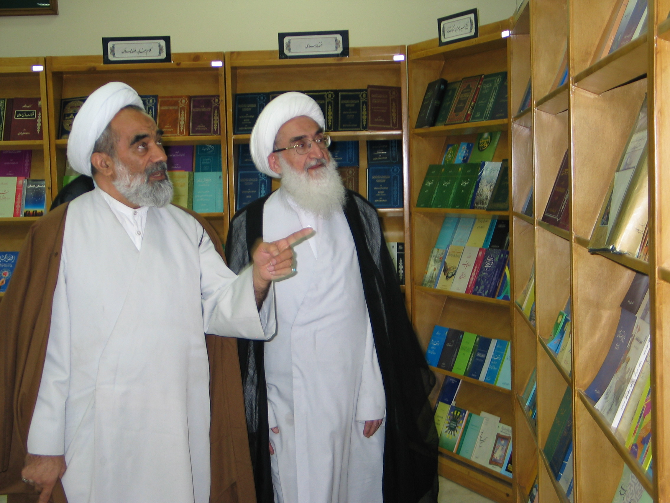 Ali Akbar Ilahi and Hossein Noori Hamedani - august 30 2005 at Mashhad